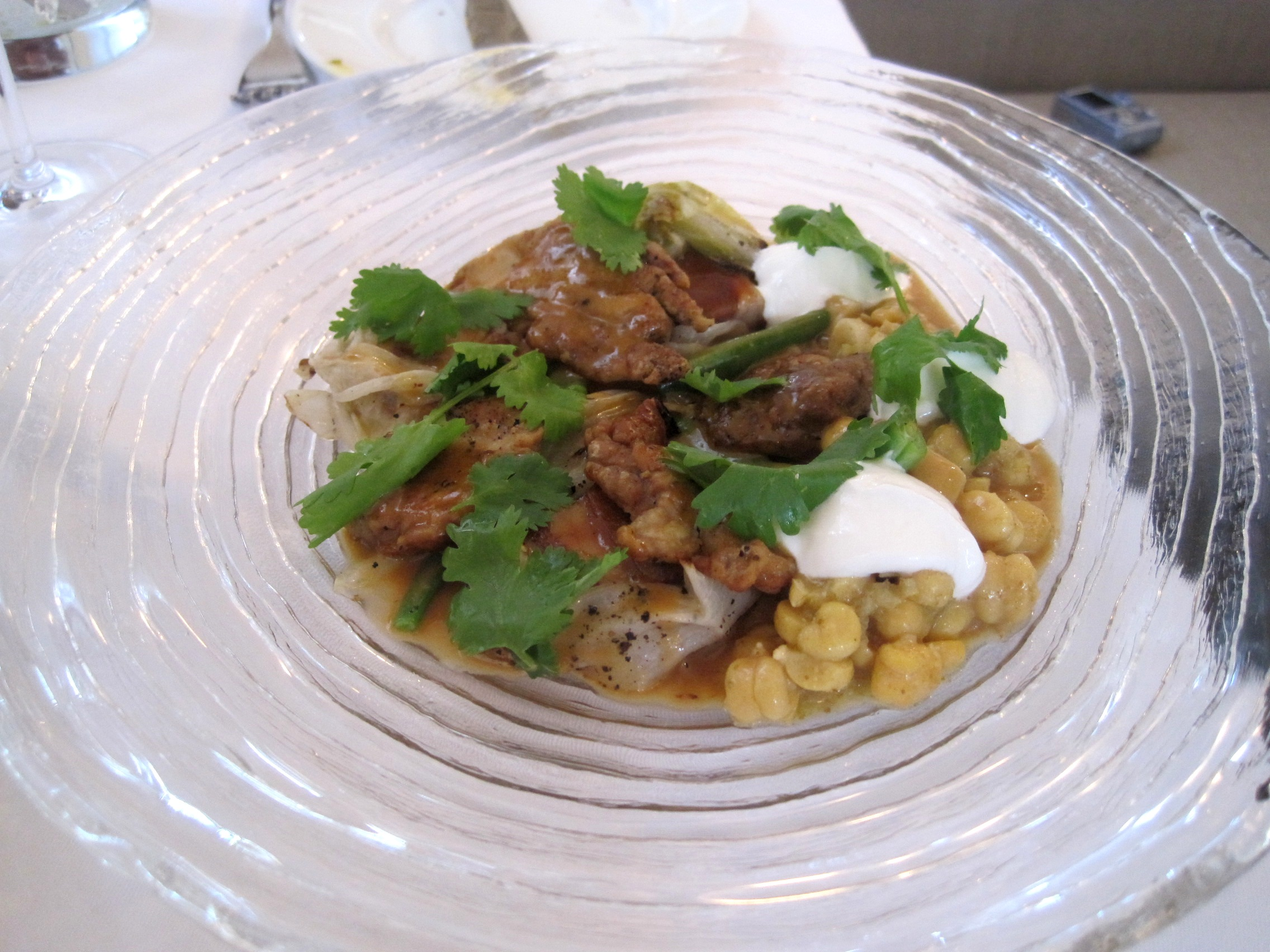 Catit 2011 1